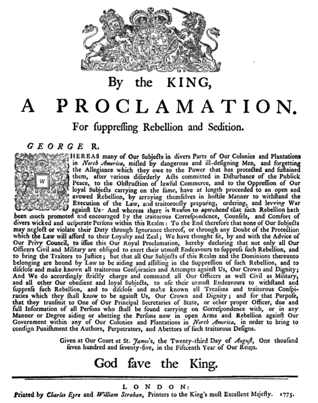 This is a scan of the Proclamation of Rebellion issued by King George on August 23, 1775.